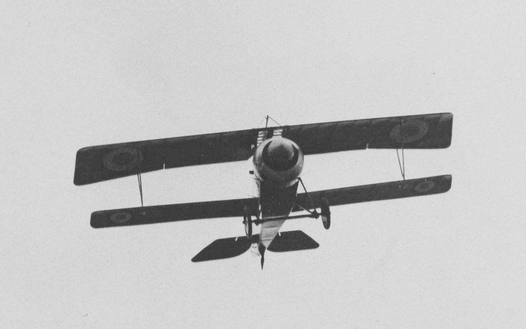 early Nieuport 17 climbing at Le Bourget, 18 July 1916